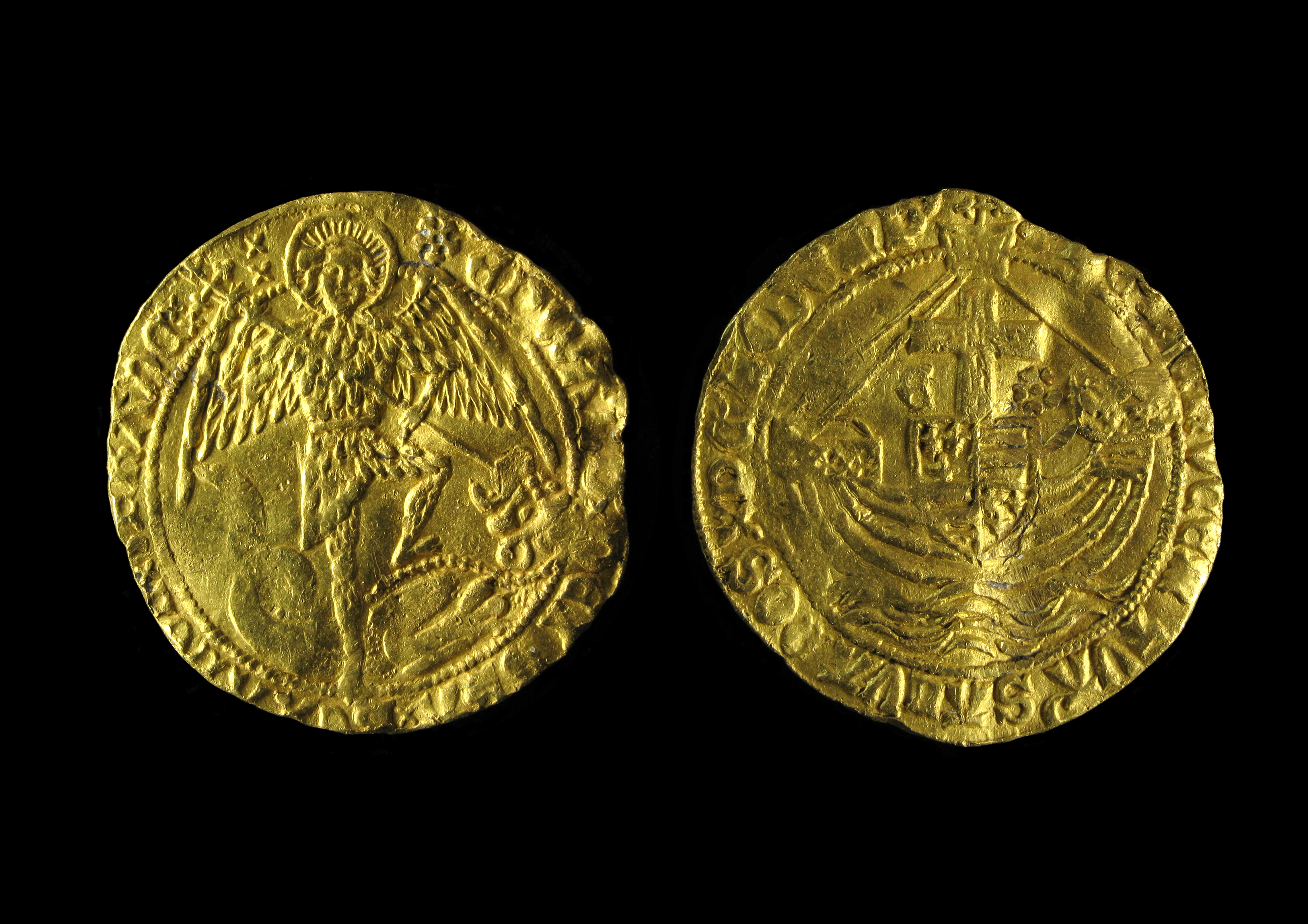 'Angel' of Edward IV This was added from the site called under the name portableantiquities. See source for details.